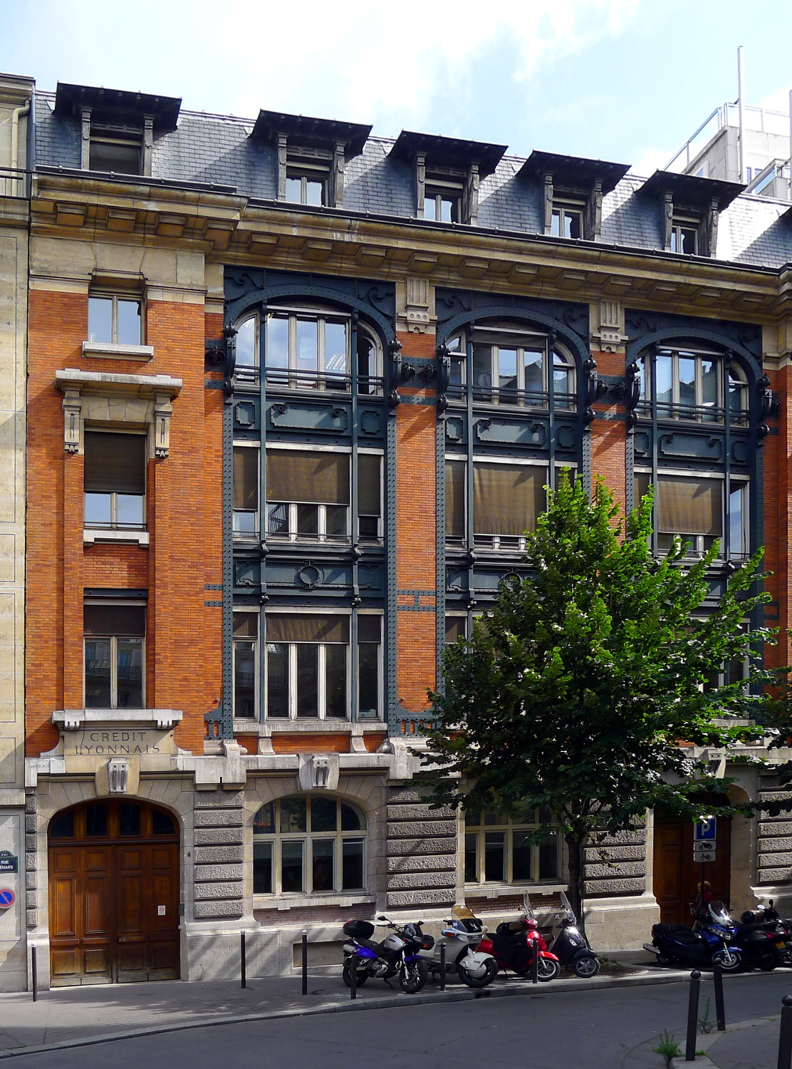 Ménars street - Paris